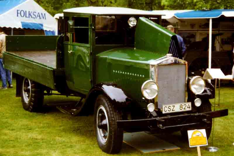 Scania-Vabis 3244 Truck 1929